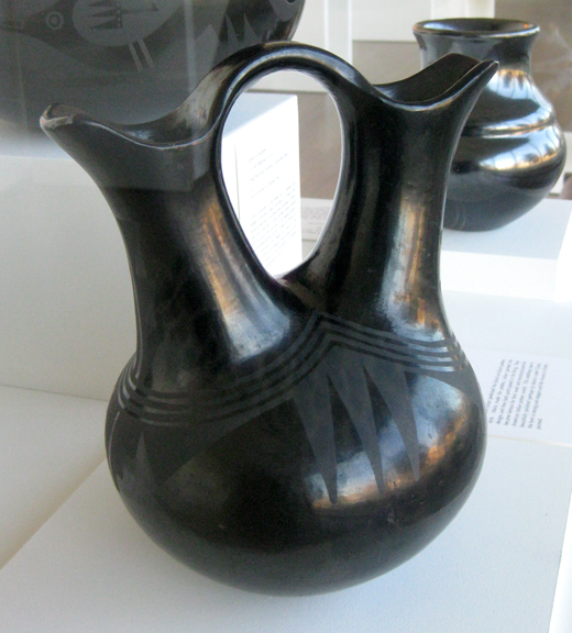 Wedding vase by Maria and Julian Martinez (both San Ildefonso Pueblo), matte-on-gloss blackware, ca. 1929, collection of the Fred Jones Jr. Museum